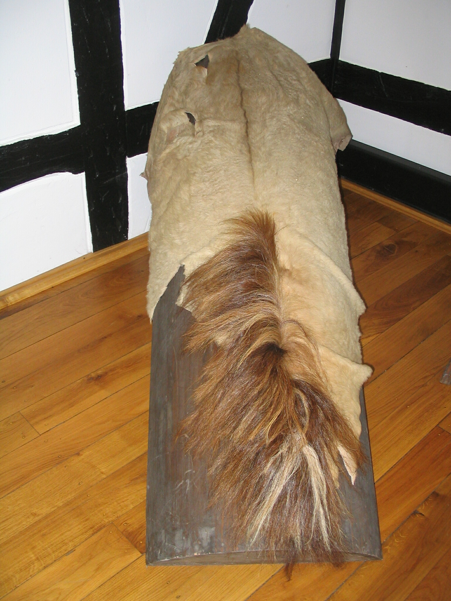 Pony skin, Westfälisches Freilichtmuseum Hagen